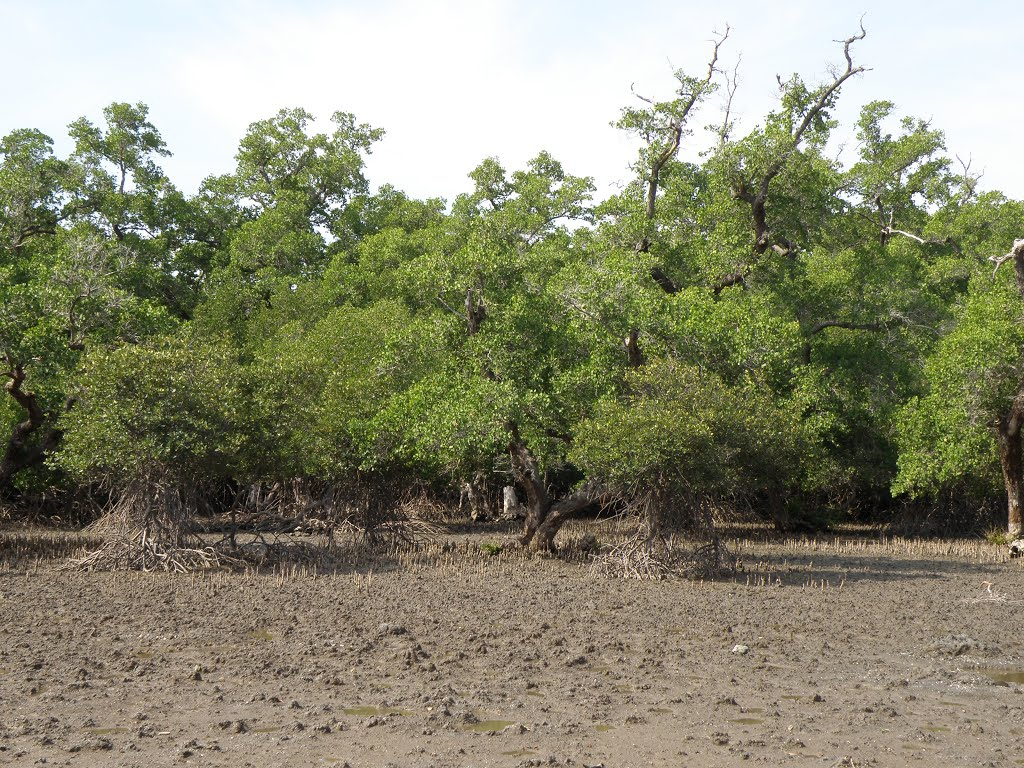 Mangrove stand near aquaculture salt and fishponds at Tibar, Dili Timor-Leste